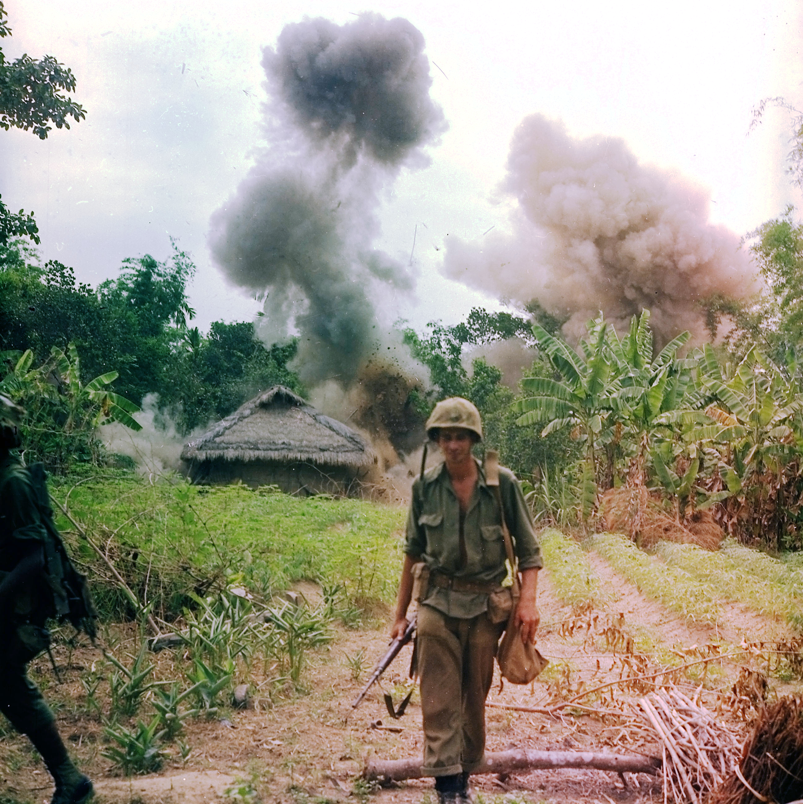 Operation Georgia--Marines blow up bunkers and tunnels used by the Viet Cong.